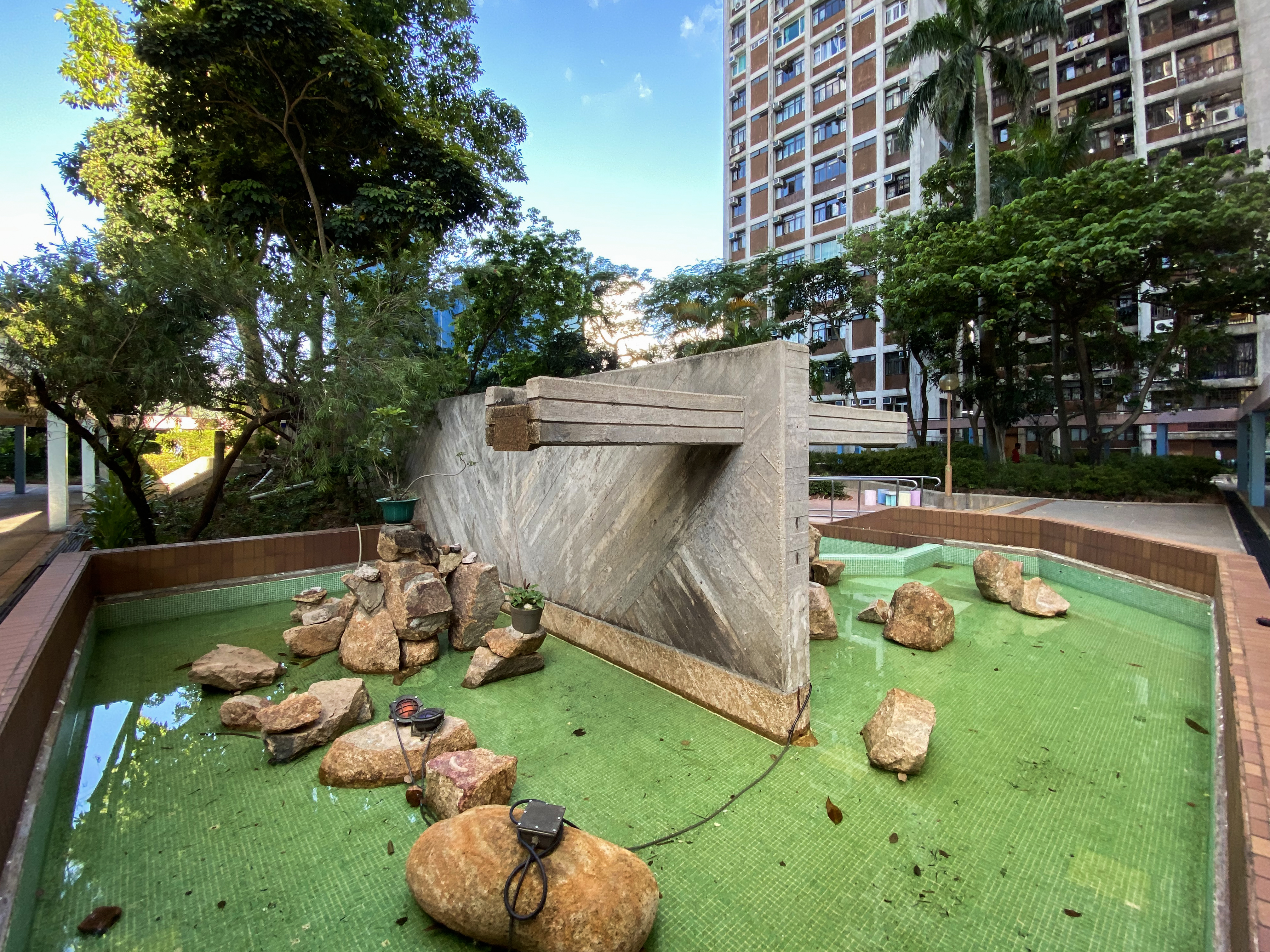 Sui Wo Court Phase 1 Fountain